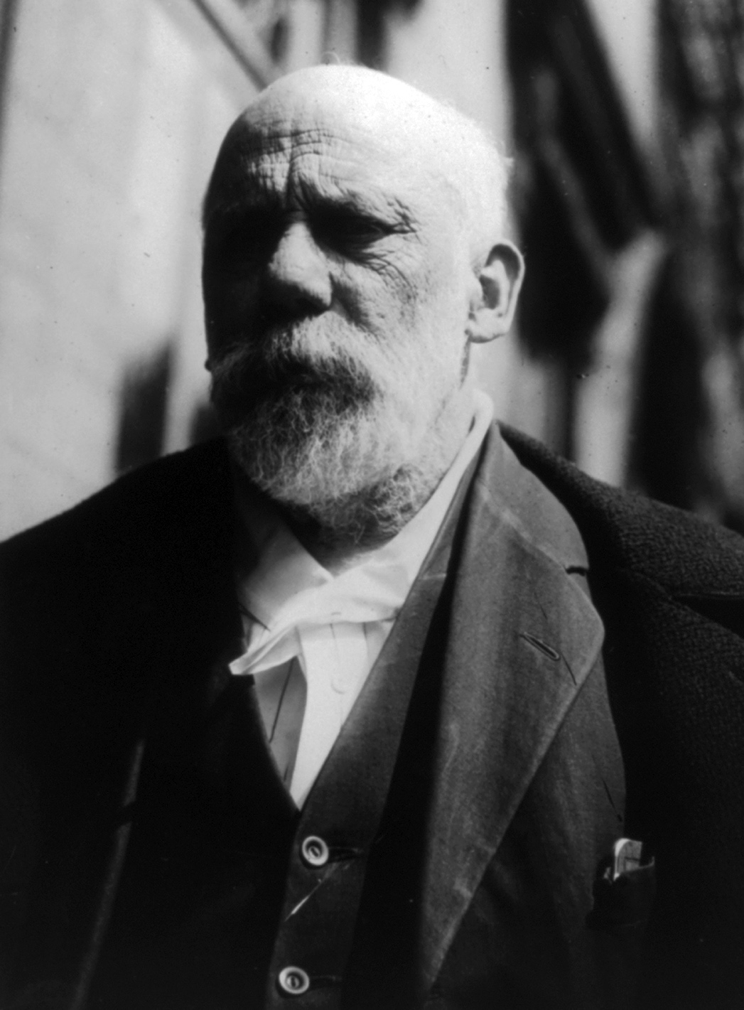 Daniel De Leon, American Socialist